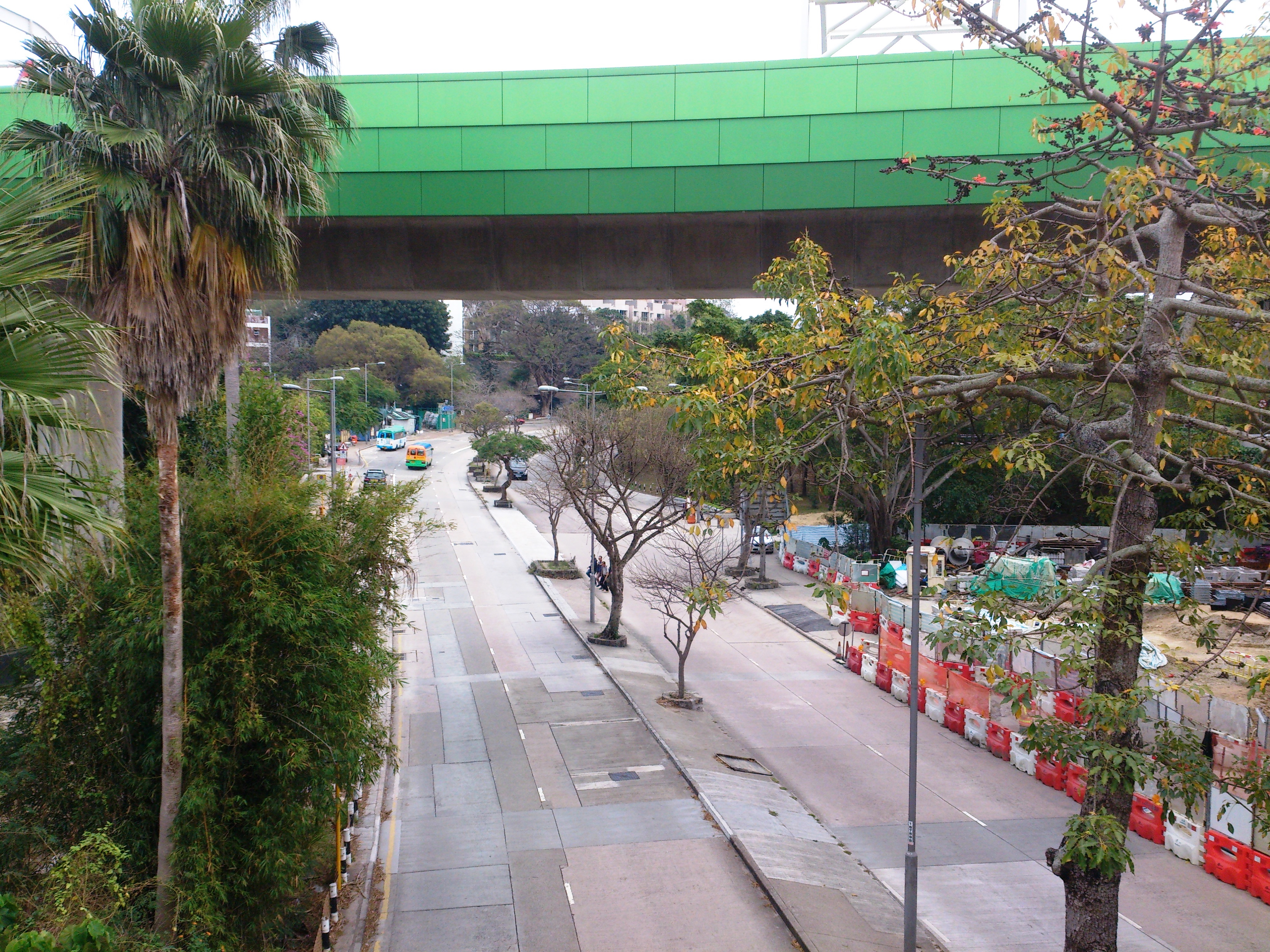 Wong Chuk Hang Road towards Island Road